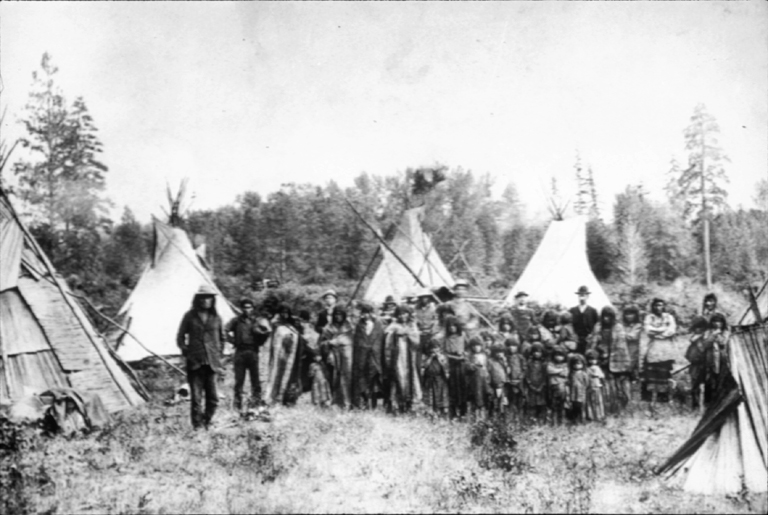 Title: Kutenai group and tepees Notes: Large group of mostly unidentified people. Some of the people identified are: (left to right) Chief Isaac Adama (Humpfoot), David (later Chief), Mrs. Cecelia Teo (daughter of Old Nancy), ?, ?, ?, Mrs. nancy Adams (aka Old Nancy, wife of Isaac Adams), Ann Adams (Nancy's daughter), ?, ?, Nicala Jerome, rest unidentified except for the two men on the far right for are Louis Abraham (Eneas' father), and Jerome Chiquiet. Subjects: Kutenai Indians Tipis Location Depicted: Northwest, Pacific Negative Number: L97-24.24 Collection: Arthur B. Dunning Repository: Northwest Museum of Arts and Culture Restrictions: University of Washington Digital Collections